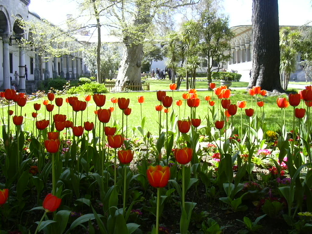 Tulips in the Topkapı Palace's gardens (Istanbul).